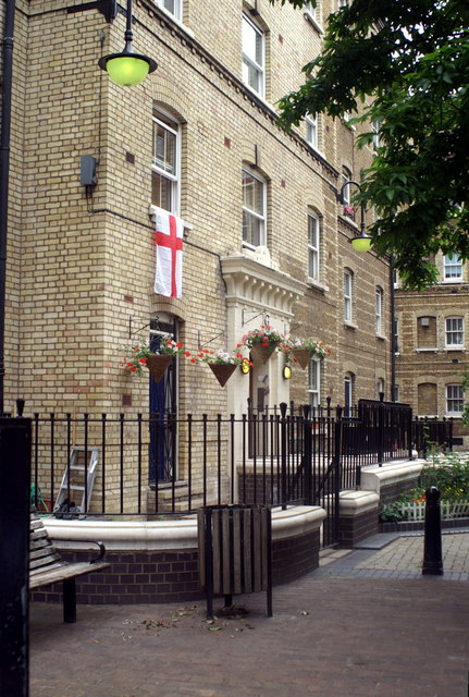 Whitecross Street Estate Peabody Trust housing dating from Victorian times, with modern street furniture. Flags in honour of the World Cup.